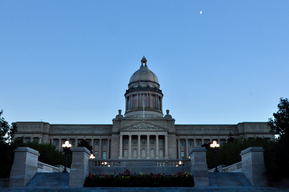 The north facade of the Kentucky State Capitol building located in Frankfort, Kentucky